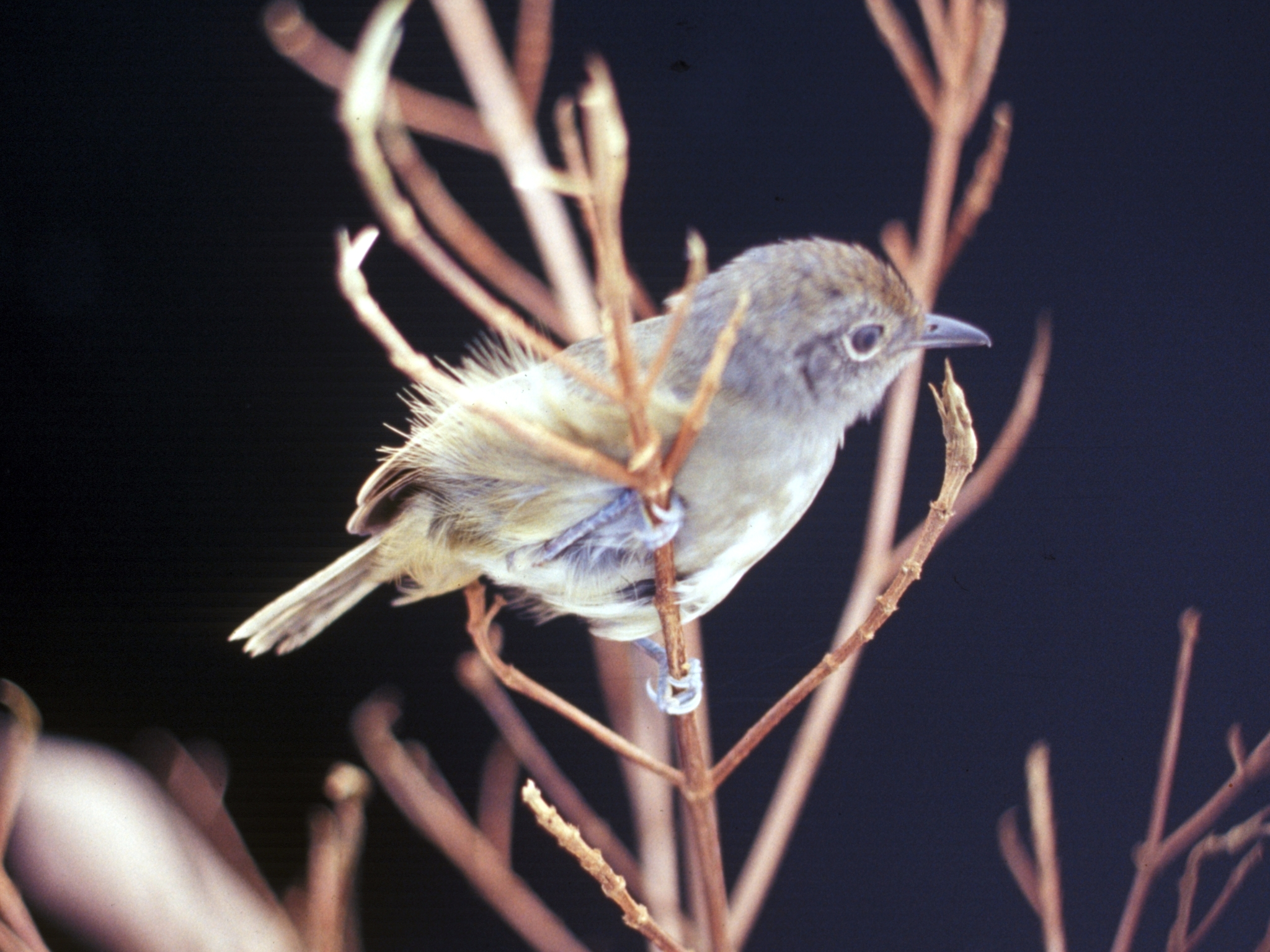 Plain Antvireo (Dysithamnus mentalis) in Ecuador. Originally mistakenly identified as Schizoeaca griseomurina.